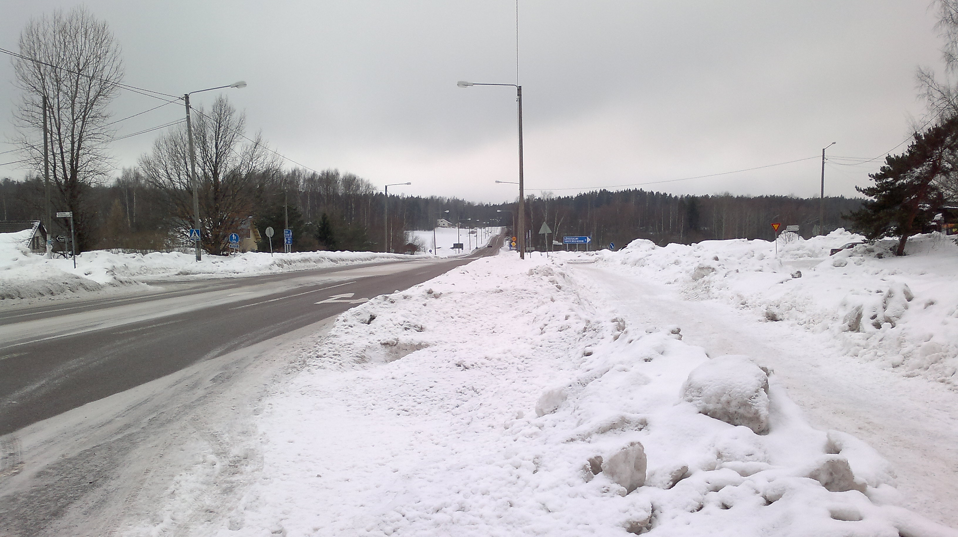 Uusi Porvoontie national road (part of Seututie 170) in Östersundom district, Helsinki